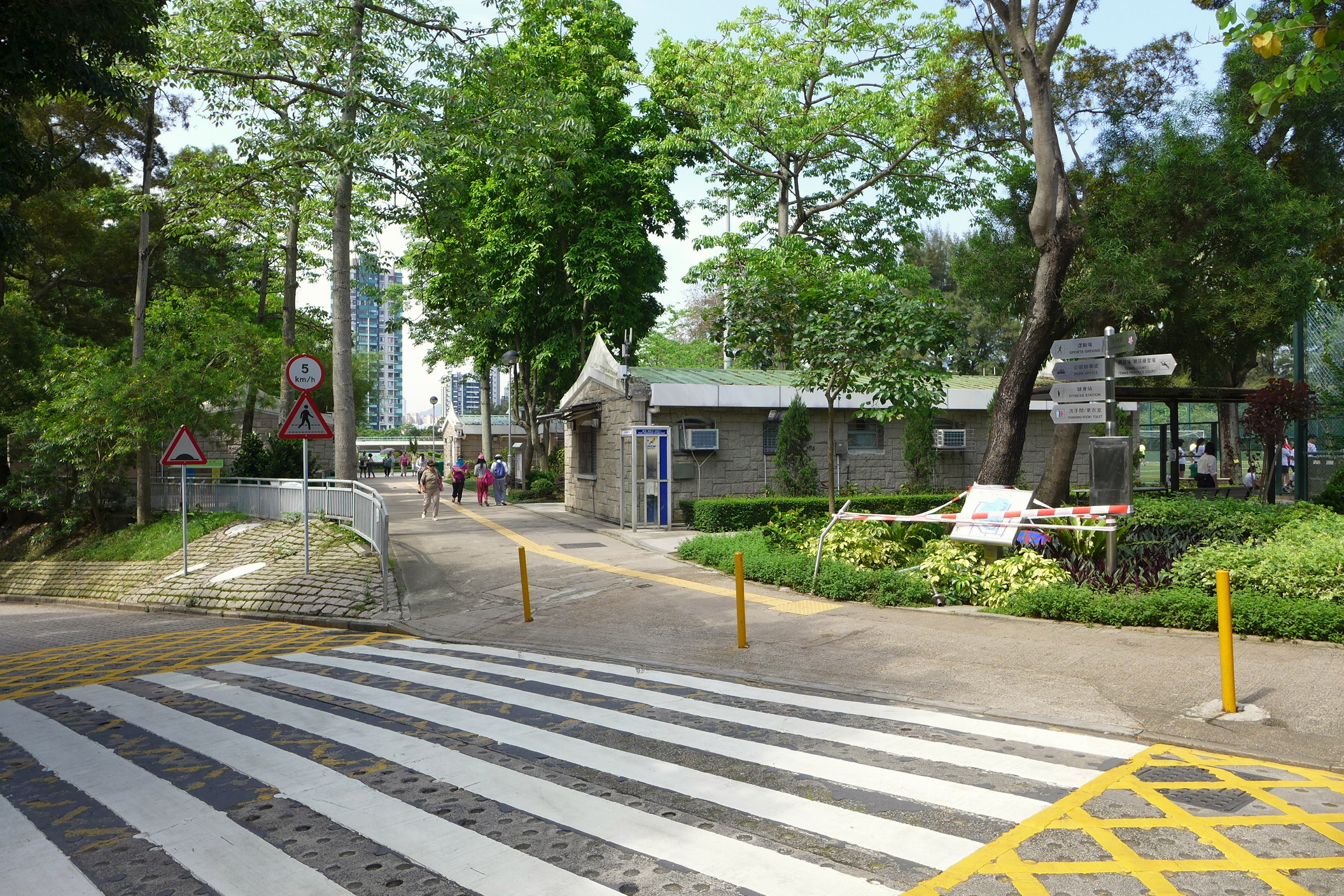 Kowloon Tsai Park Park Office